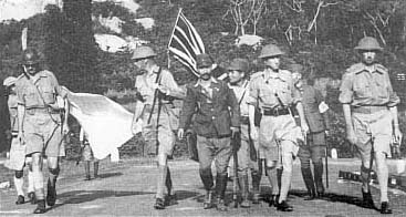 Arthur Percival marches under a flag of truce in order to sue for surrender of the British forces to the Japanese on 15 February 1942.